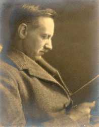 Lord Dunsany, author, somewhere 1905-1910